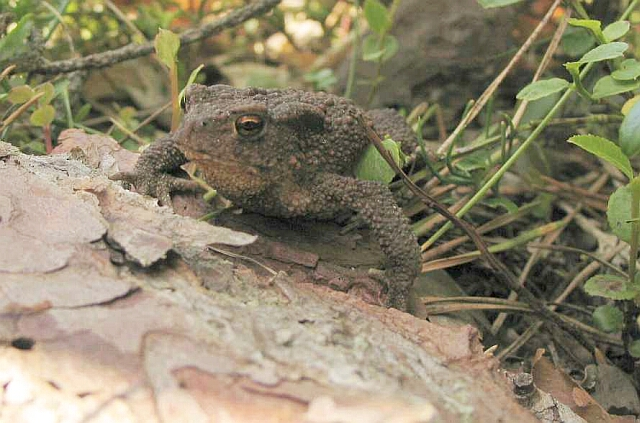 taken in Poland